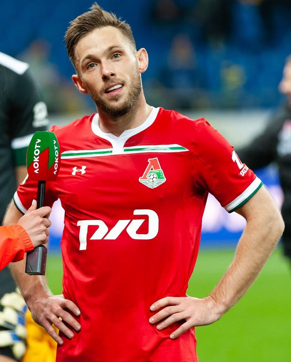 Maciej Rybus being interviewed after the game between FC Rostov and FC Lokomotiv Moscow.